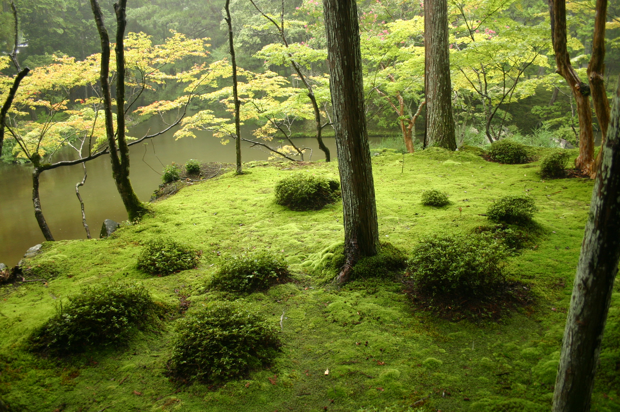 View from Saihouji (kokedera) pond. Taken during holidays trip